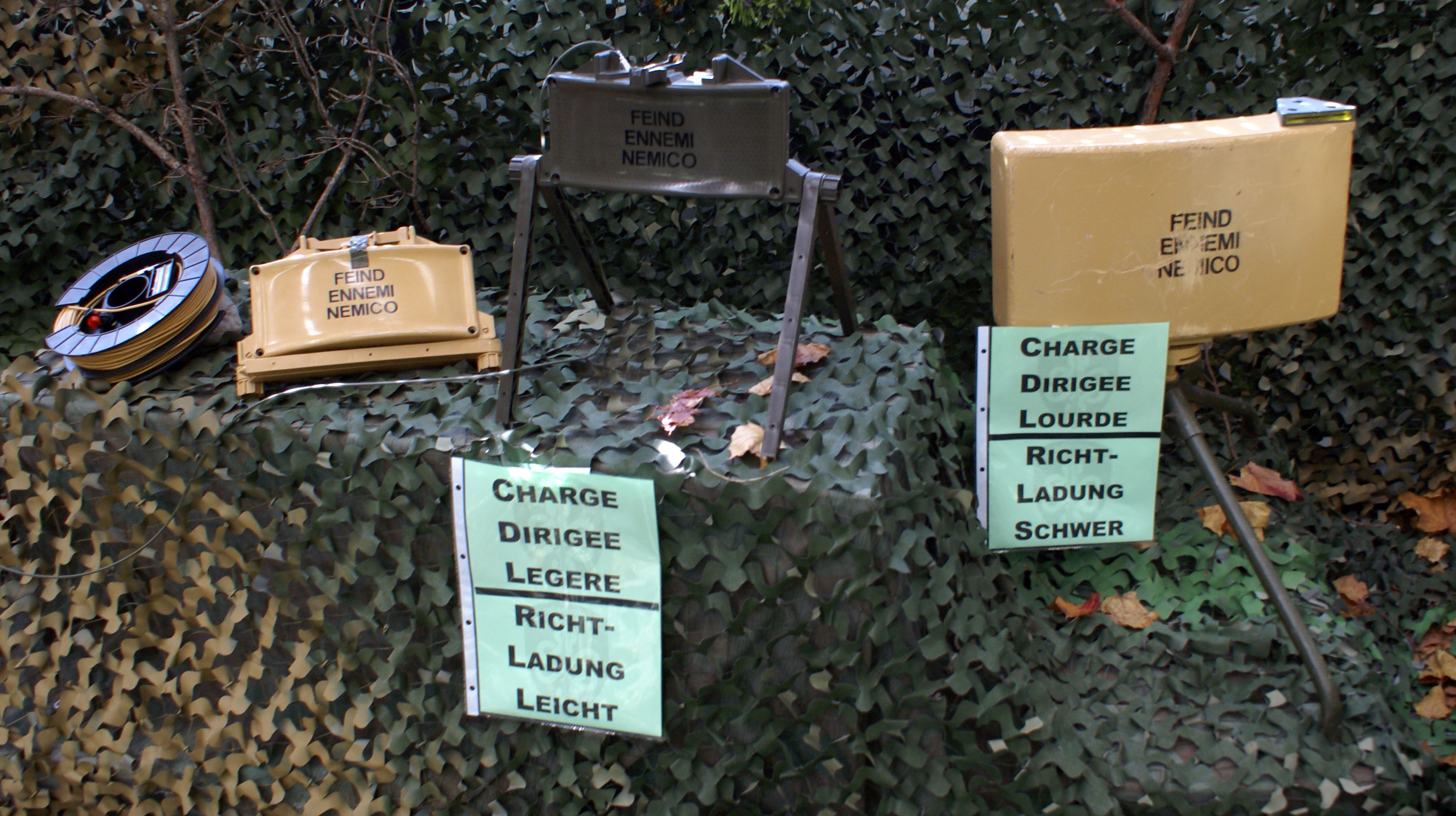 Swiss Army. Directional fragmentation devices 96, heavy variant (right) and light variant (center and left). At the very left, the manual detonation cable.